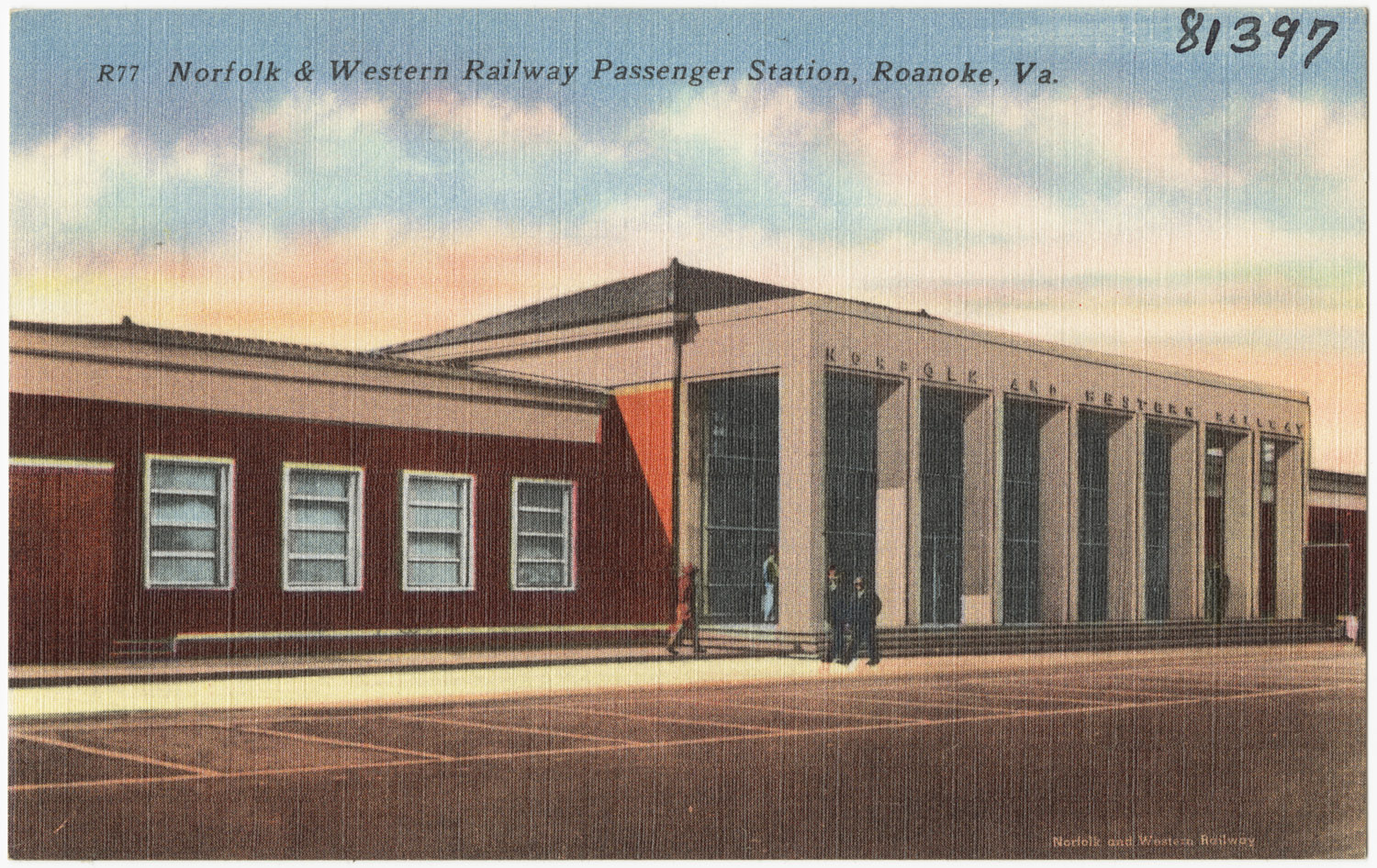 File name: 06_10_021621 Title: Norfolk & Western Railway Passenger Station, Roanoke, Va. Created/Published: Pub. by Asheville Post Card Co., Asheville, N. C. Date issued: 1930 - 1945 (approximate) Physical description: 1 print (postcard) : linen texture, color ; 3 1/2 x 5 1/2 in. Genre: Postcards Subject: Railroad stations Notes: Title from item. Collection: The Tichnor Brothers Collection Location: Boston Public Library, Print Department Rights: No known restrictions